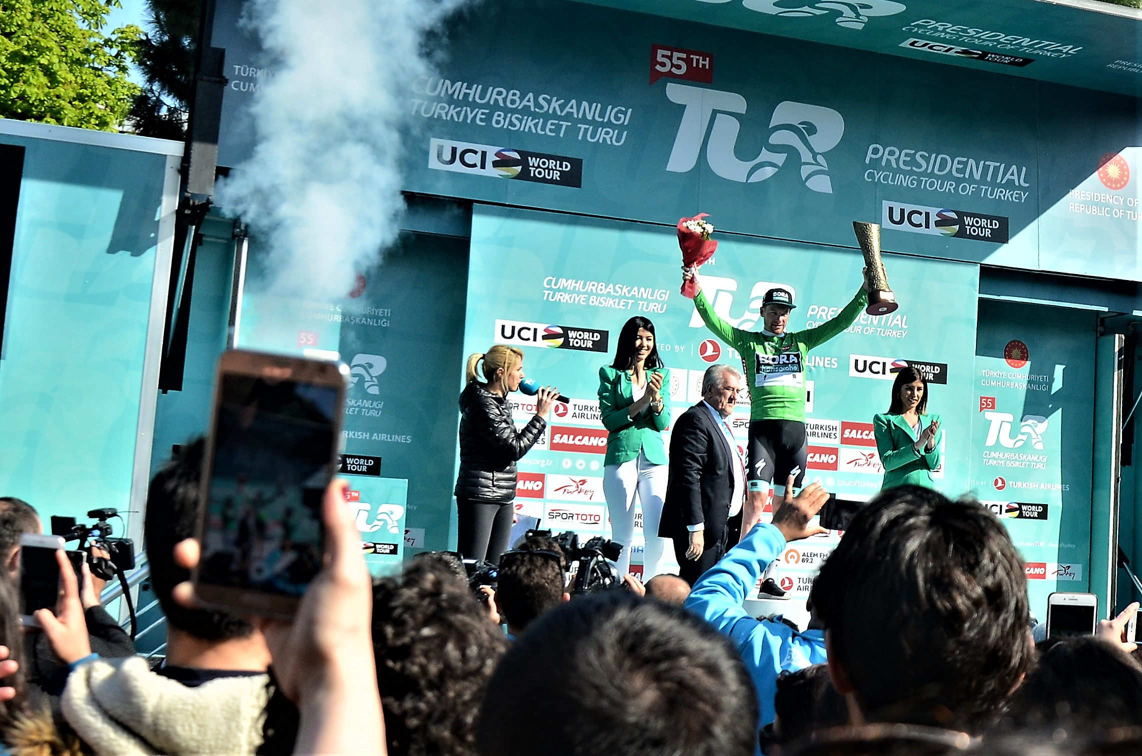 Winner of the Sprint classification Sam Bennett (Bora–Hansgrohe) at the 55th Presidential Cycling Tour of Turkey 2019 at at the award ceremony.